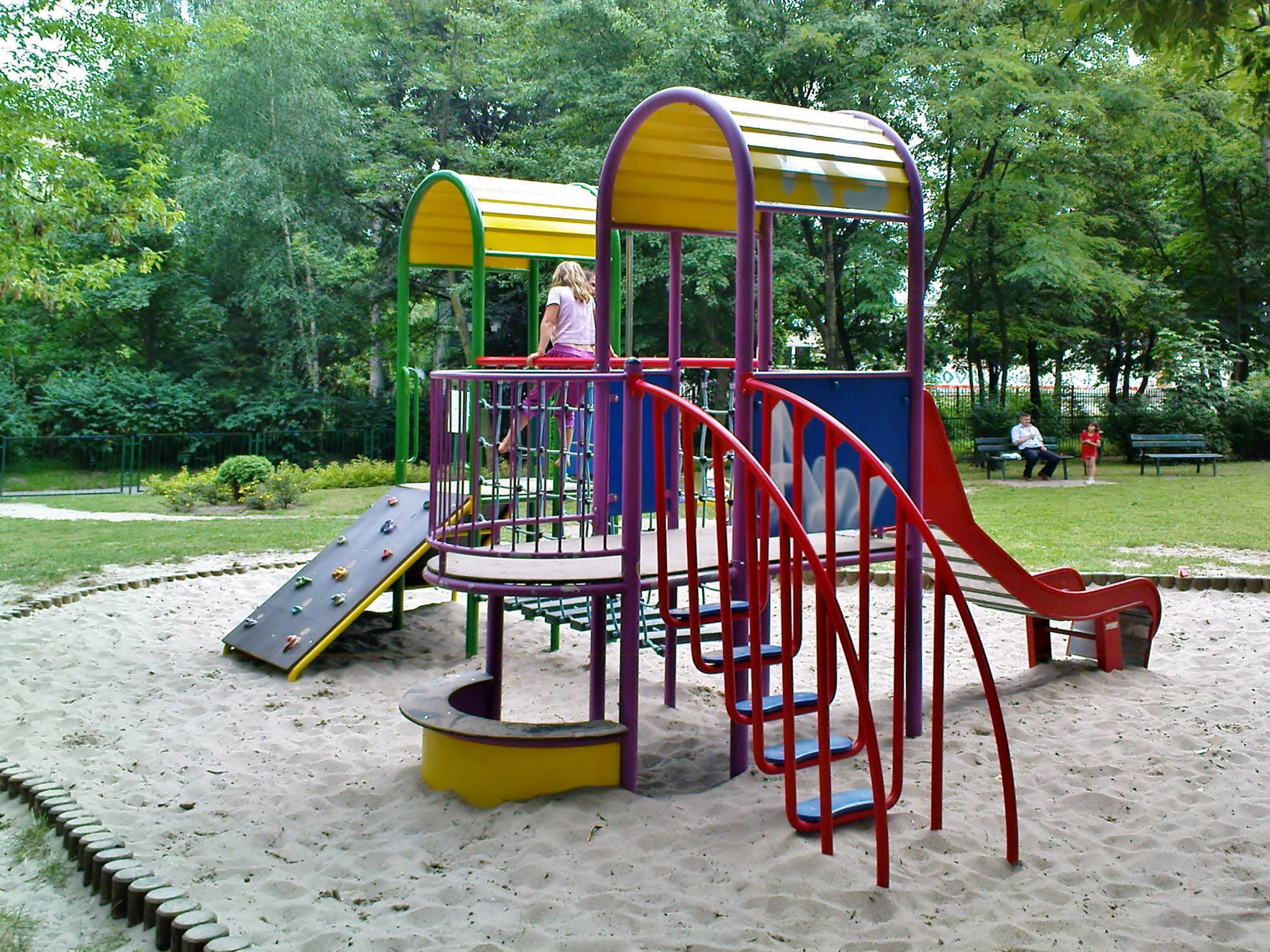 Kraków Kozłówek - slide on a playground for children